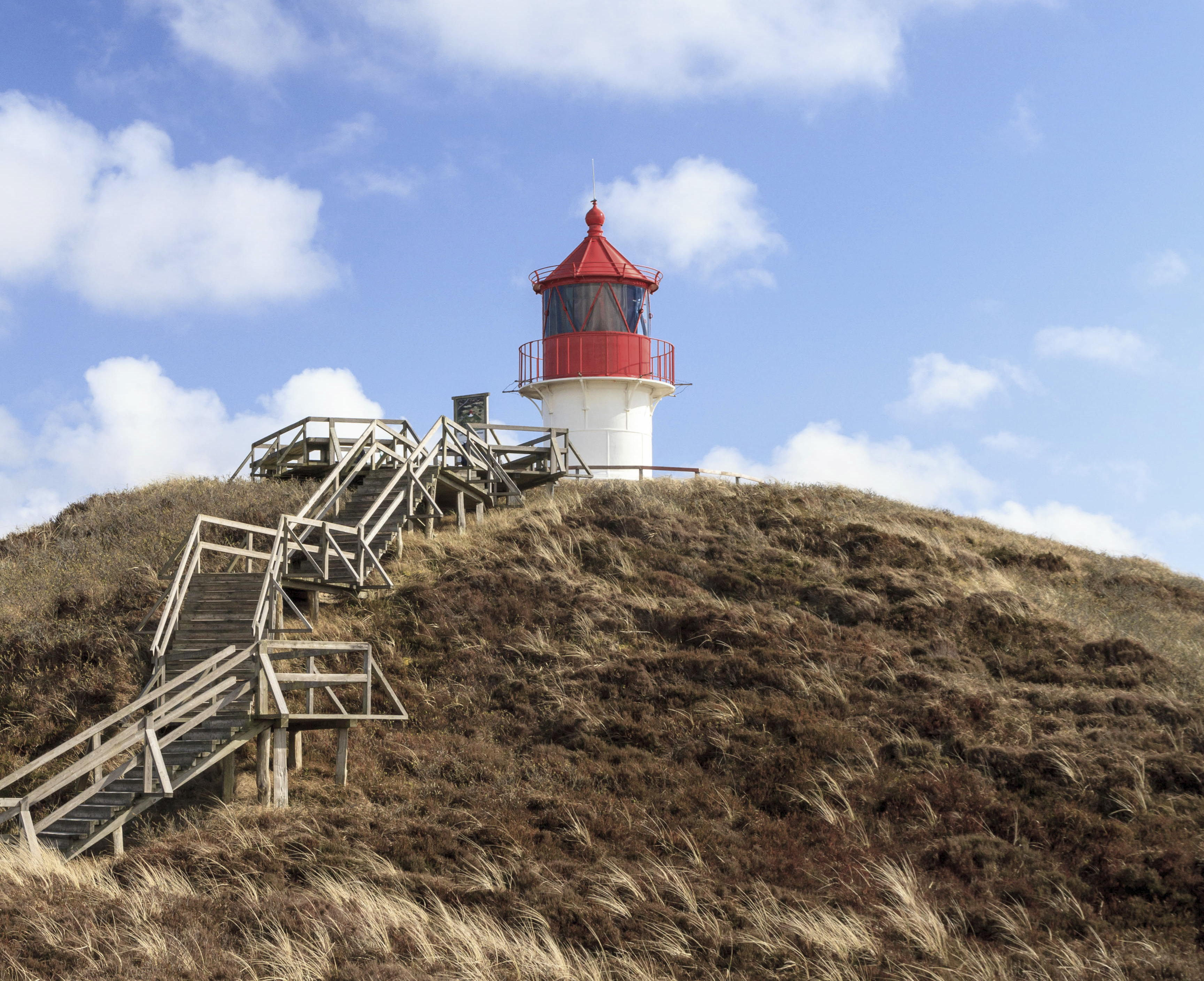 The making of this document was supported by the Community-Budget of Wikimedia Germany. Leuchtturm Norddorf